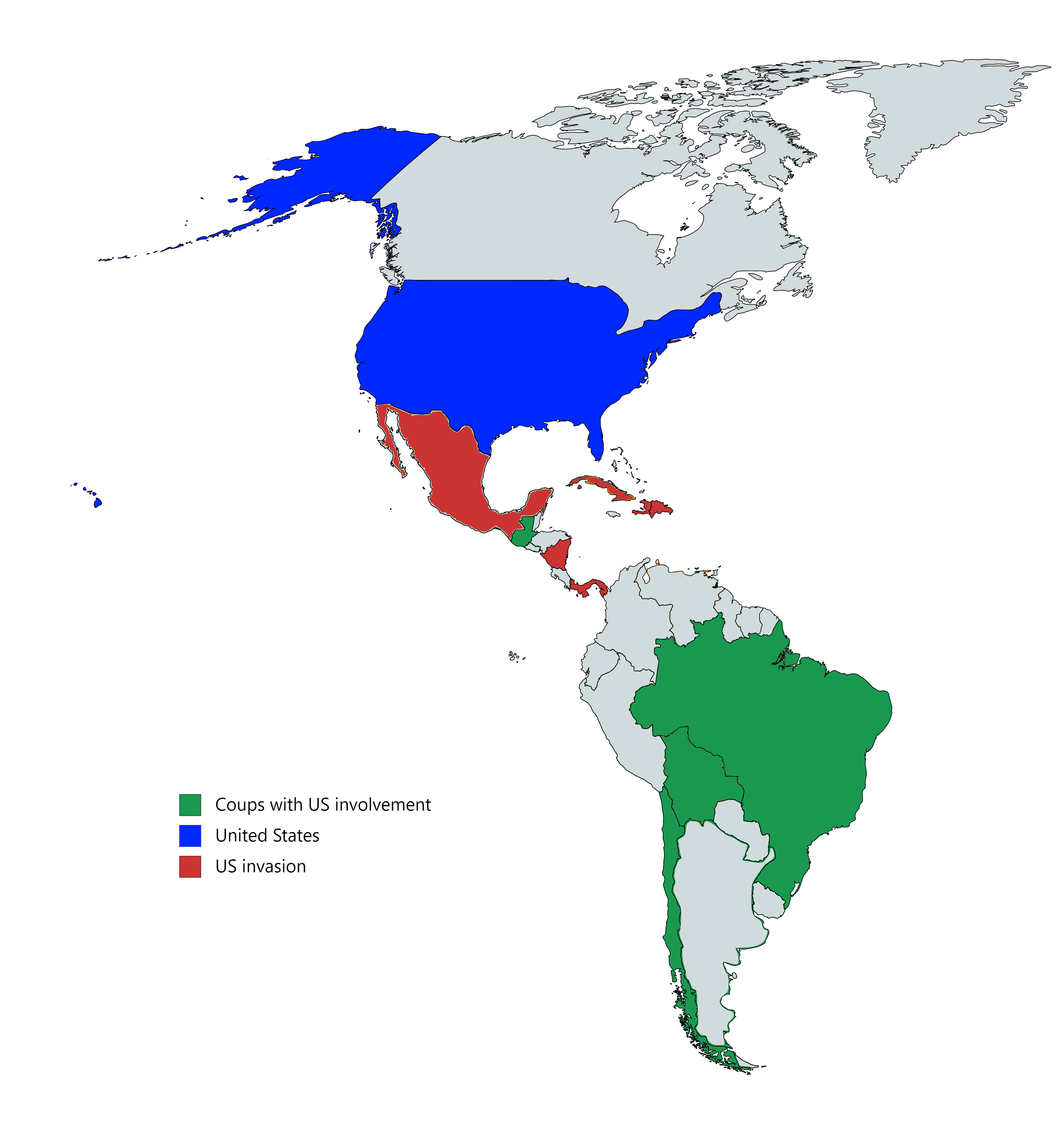 Map of the Americas illustrating US invasions, US-supported coups and attempted coups. Mexico: 1913 Huerta coup given political support by the outgoing Taft ambassador Henry Lane Wilson and incoming Woodrow Wilson administration Cuba: 1898-1902 US occupation, 1906-1909 US occupation, 1917-1922 US occupation, 1962 Bay of Pigs invasion Haiti: 1915-1934 US occupation Dominican Republic: 1916-24 US occupation; 1965 US intervention in civil war Guatemala: 1954 PBSUCCESS coup directly organized and carried out by CIA under Allen Dulles El Salvador: 1979 coup supported by Carter administration, Carter and Reagan administrations funded Salvadorean government in ensuing civil war Nicaragua: 1912-1933 US occupation; Reagan administration funded Contra guerrillas in 1980s Grenada: 1983 US invasion Costa Rica: 1948 civil war; US funded Figueres' government Panama: 1903 separatist movement supported by US; 1989 US invasion Venezuela: 2002 coup members had US personal ties, but financial support only alleged; 2020 failed operation not yet determined to be officially supported Brazil: 1964 offered and possibly given US military aid Peru: 1968 coup had US support Bolivia: 2019 coup alleged to have been with US support Chile: 1973 Pinochet coup had CIA support Paraguay: 1989 coup supported by Bush administration Argentina: 1976 coup had support from Kissinger-led US State Department Uruguay: 1973 coup supported by Nixon administration and CIA